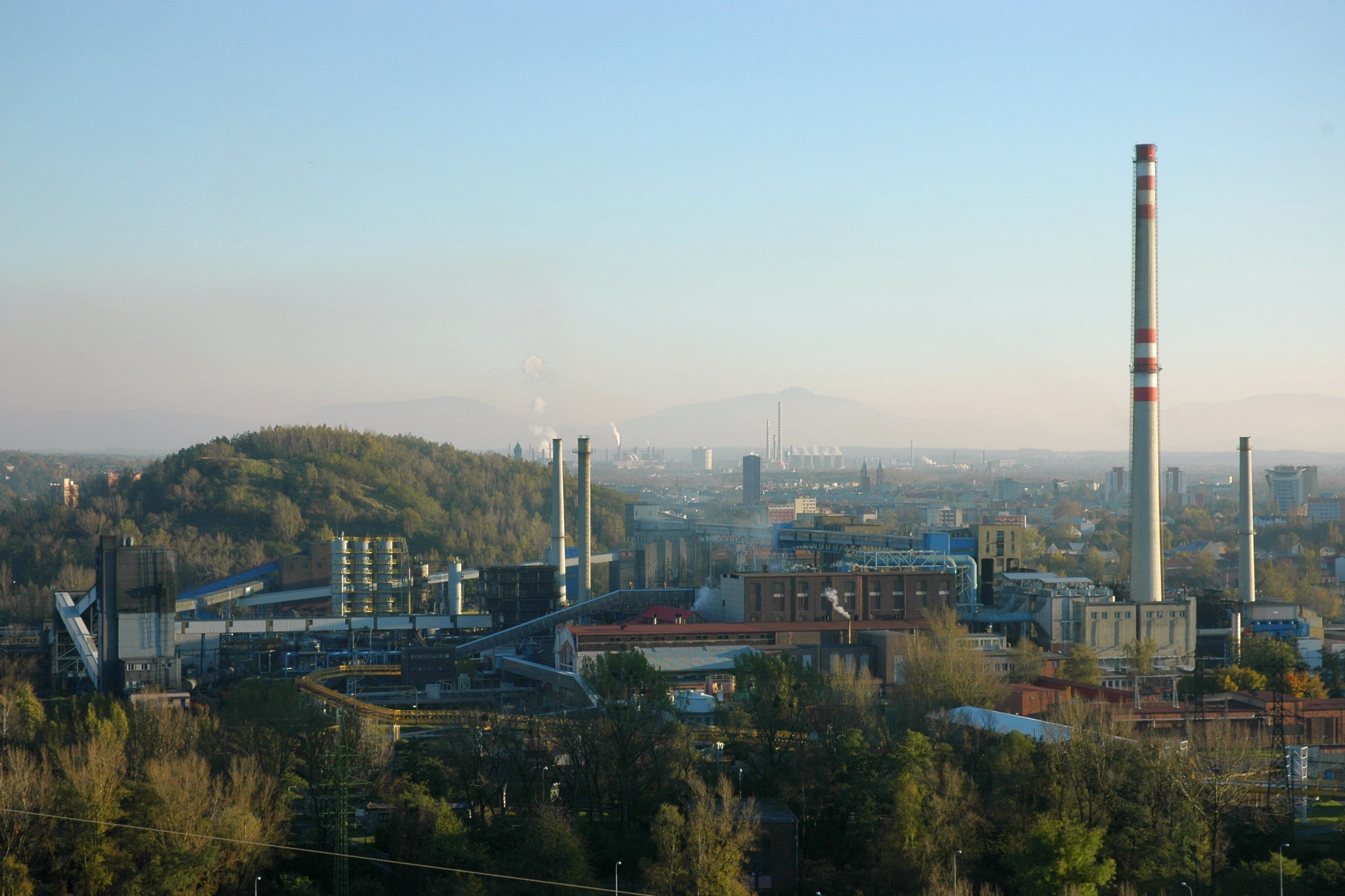 Svoboda coking plant and Přívoz heat plant, Ostrava, Czech Republic